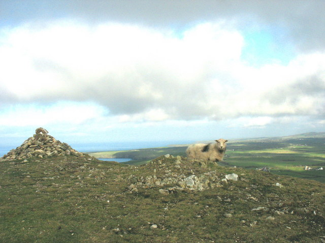 The summit of Mynydd Anelog Although only 192m high, Mynydd Anelog falls steeply northwards towards the sea. It is a marvellous view point, with views over Pen Llyn, Ynys Enlli and Caernarfon and Cardigan Bays. This particular sheep is a semi-permanent feature of the summit, being possibly a re-incarnated Geographer.